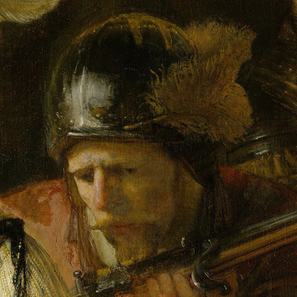 Detail from Rembrandt's Night Watch. Shown is Jan Claesen Leijdeckers.